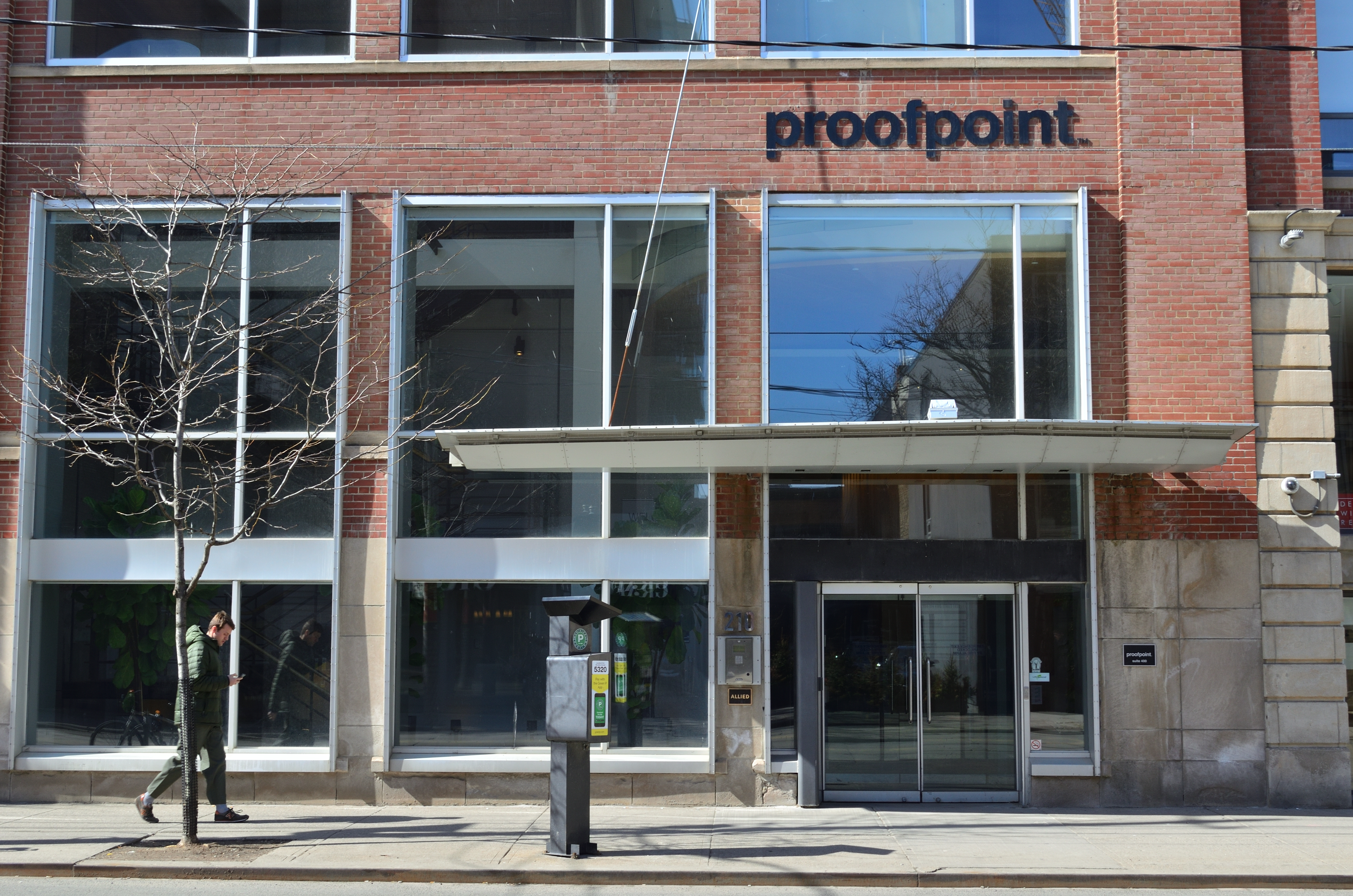 Proofpoint office in Toronto - Address: 210 King Street East, Toronto ON M5A 1J7, Canada